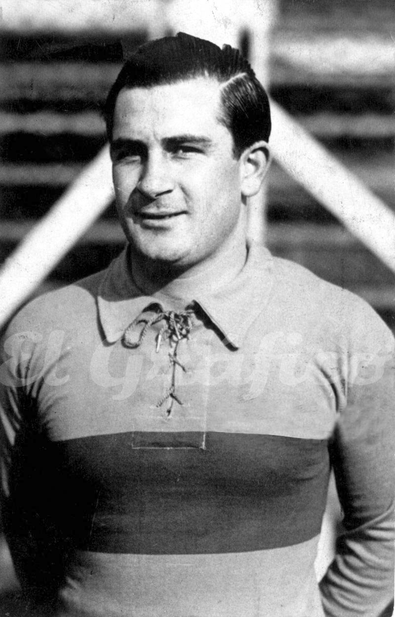 Argentine forward Mario Fortunato, with Boca Juniors colors.